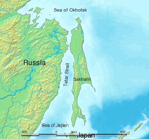 strait between Sakhalin Island and mainland of Asia